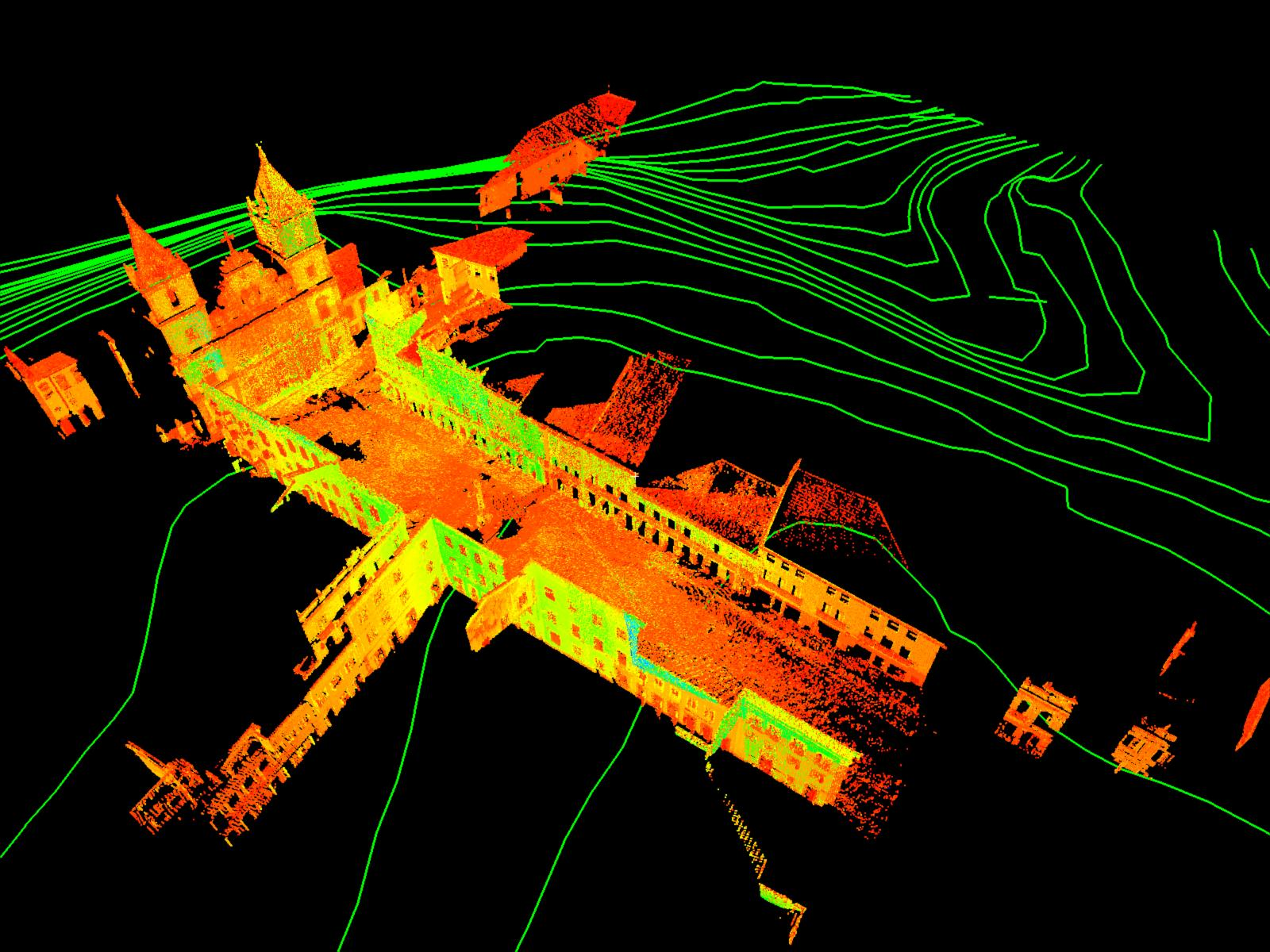 The Praca Anchieta is the cobblestone plaza in the Pelourhino that connects the Igreja de Sao Francisco with the main court, Terreiro de Jesus. Its baroque church and stone cross were built in the early 18th century, using the economic resources of the newly-wealthy sugar barons and the sweat of their slaves.